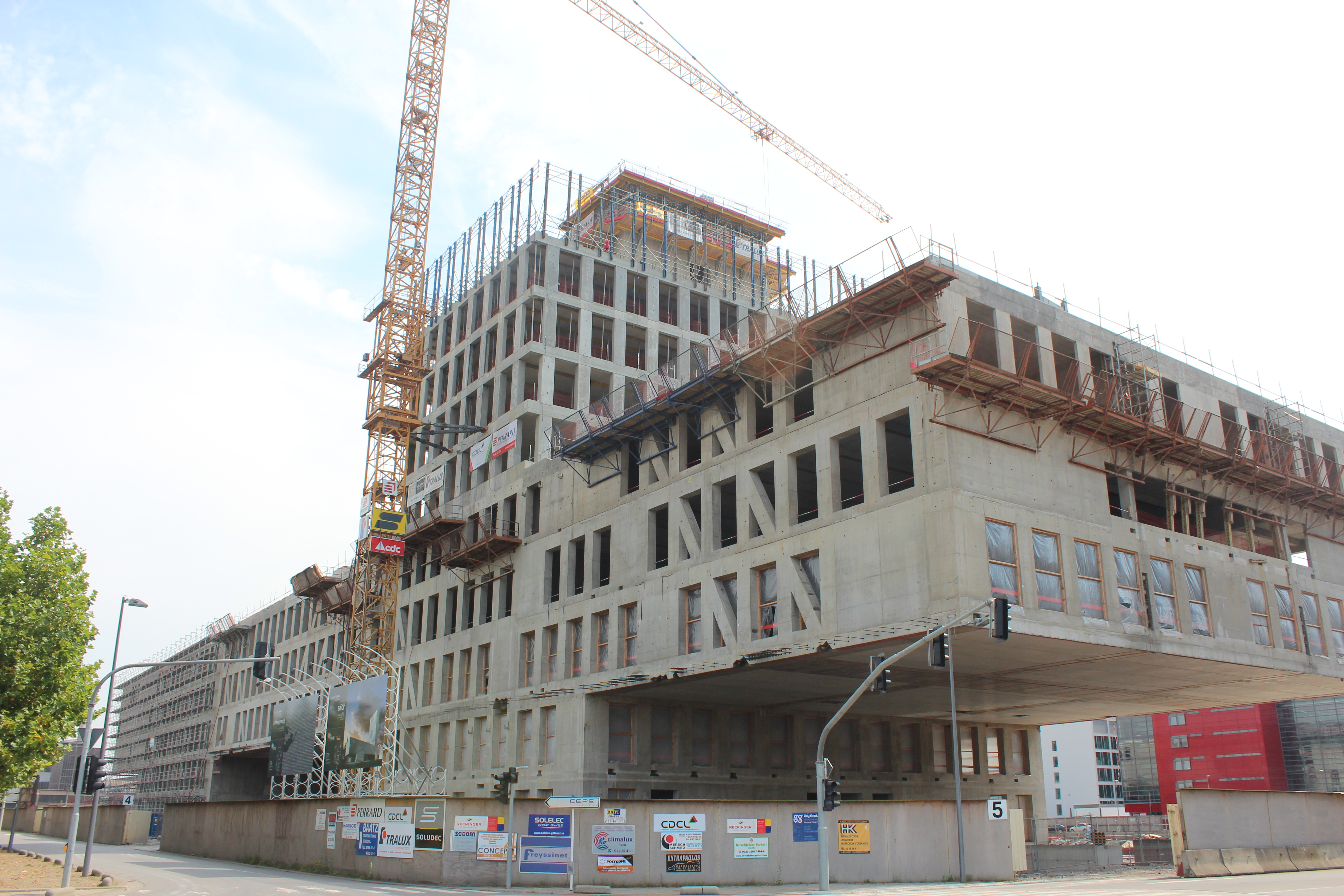 Construction site of the Maison du Savoir, the central building of the University of Luxembourg, on the future campus of Belval (Esch-sur-Alzette). The tower block has reached about half of its total hight.